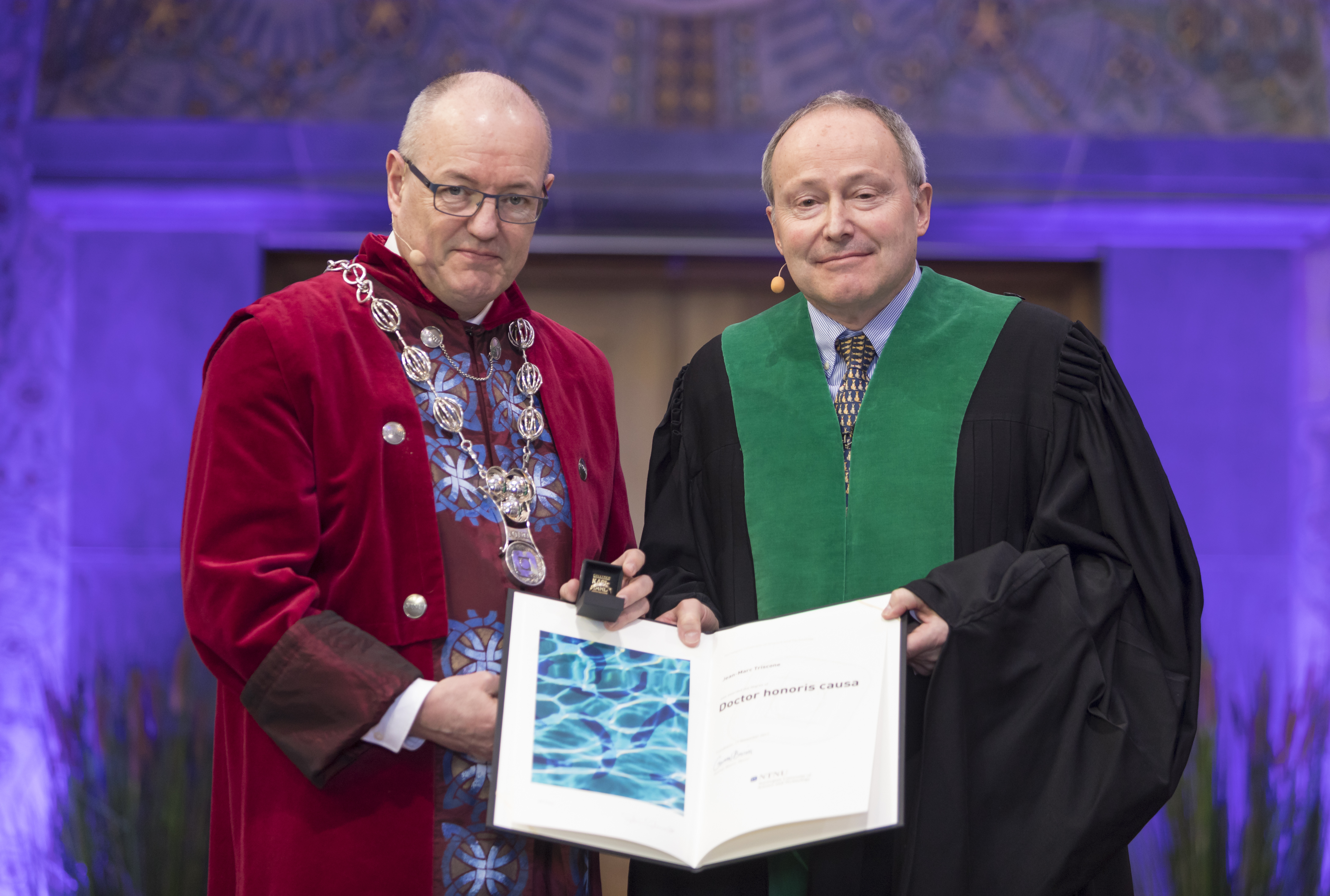 Professor Jean-Marc Triscone receiving his diploma and ring as an honorary doctor of the Norwegian University of Science and Technology (NTNU) in Trondheim, Norway. NTNU's rector on the left